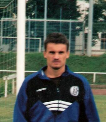 German soccer player Martin Max at the 7th of July 1996